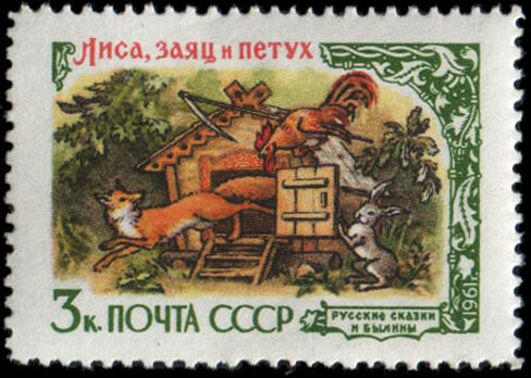 USSR postage stamp of 1961, fairy tale: Fox, Hare and Cock, CPA No. 2531